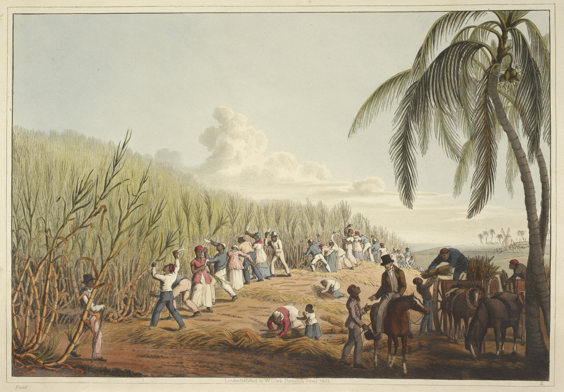 Slaves cutting the sugar cane Colour illustration